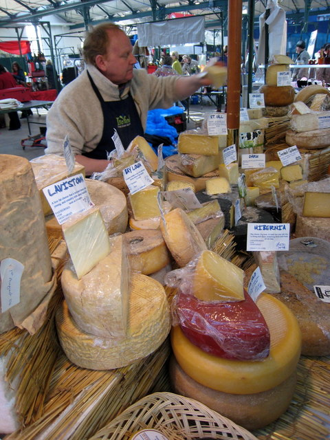 St George's Market, Belfast [10] The last remnant of Belfast's markets district is St George's Market, built 1890-96 and recently restored. Markets are held weekly on a Friday and Saturday, with occasional events and different markets at other times. for further information. The Friday 'Variety Market' dates back to 1604. It opens at 6am every week and runs until approximately 1pm. There are 248 market stalls selling a variety of products including, fruit, vegetables, antiques, books, clothes and fish. The 'City Food and Garden Market' (when these pictures were taken) takes place every Saturday from 9am until 3pm. See also 735583